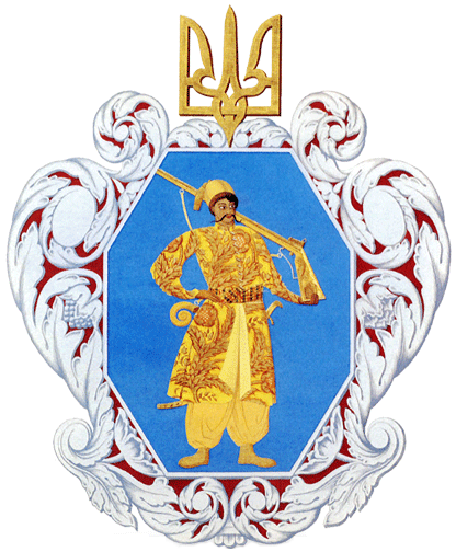 Proposal for Seal of the Ukrainian People's Republic by Heorhiy Narbut. 1918. This was ratified but not used due to occupation by German troops in 1918.